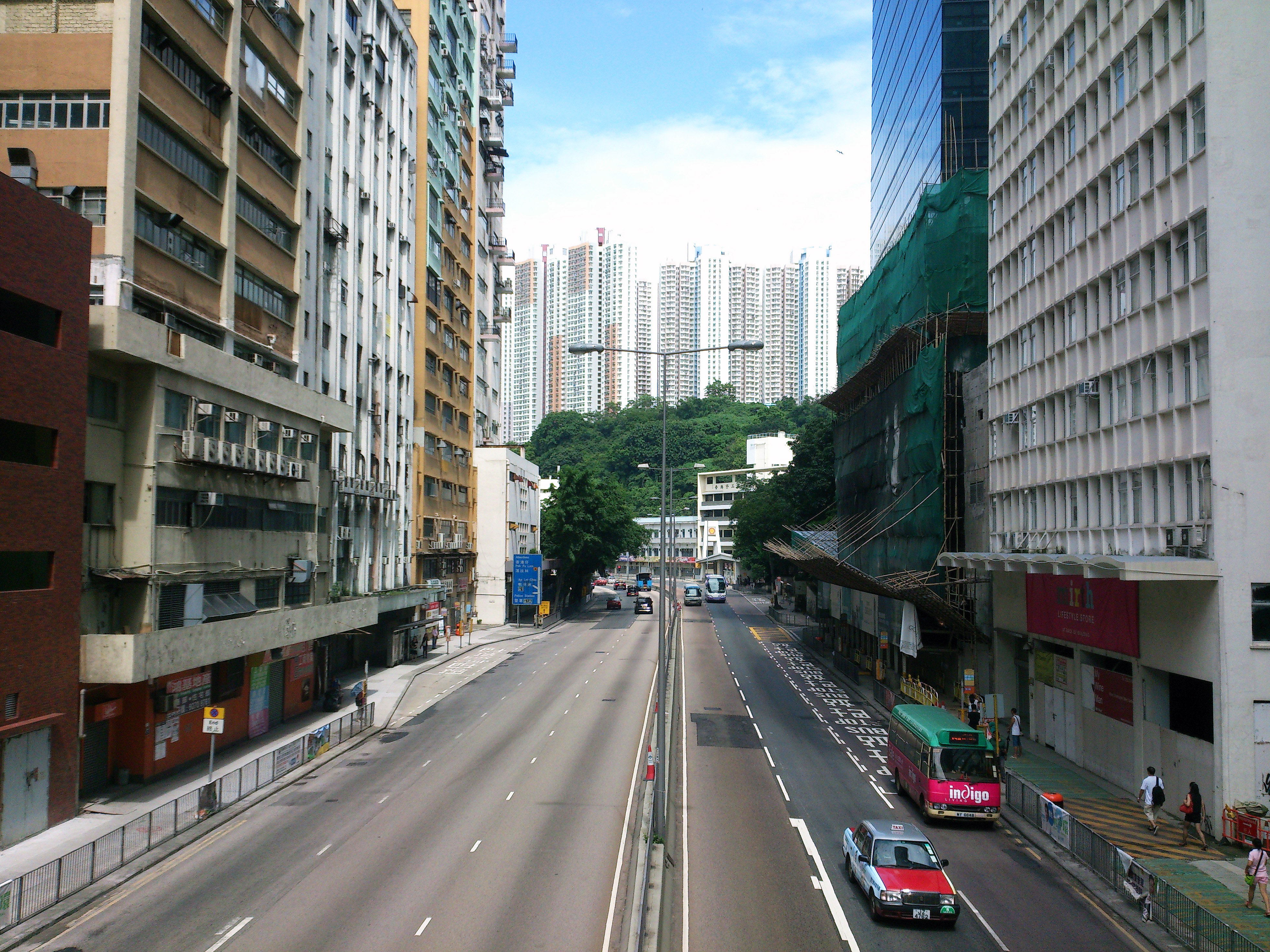 Wong Chuk Hang Road near Yan's Tower